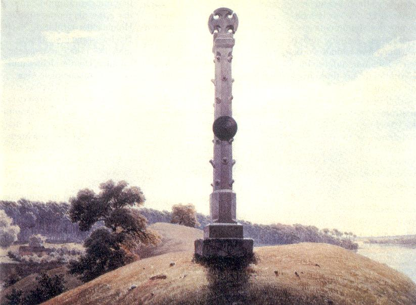 The monument commemorates to a legend of the slavic Fürst (prince, ruler) Jacza de Copnic (Jaxa von Köpenick). It was created in 1845 by the sculptor Friedrich August Stüler acted on a sketch by Frederick William IV of Prussia. Schildhorn (german for: shieldhorn) is a headland in the river Havel, situated in the protected area Grunewald in the homonymous quarter Grunewald of Berlins borough Charlottenburg-Wilmersdorf, Germany.